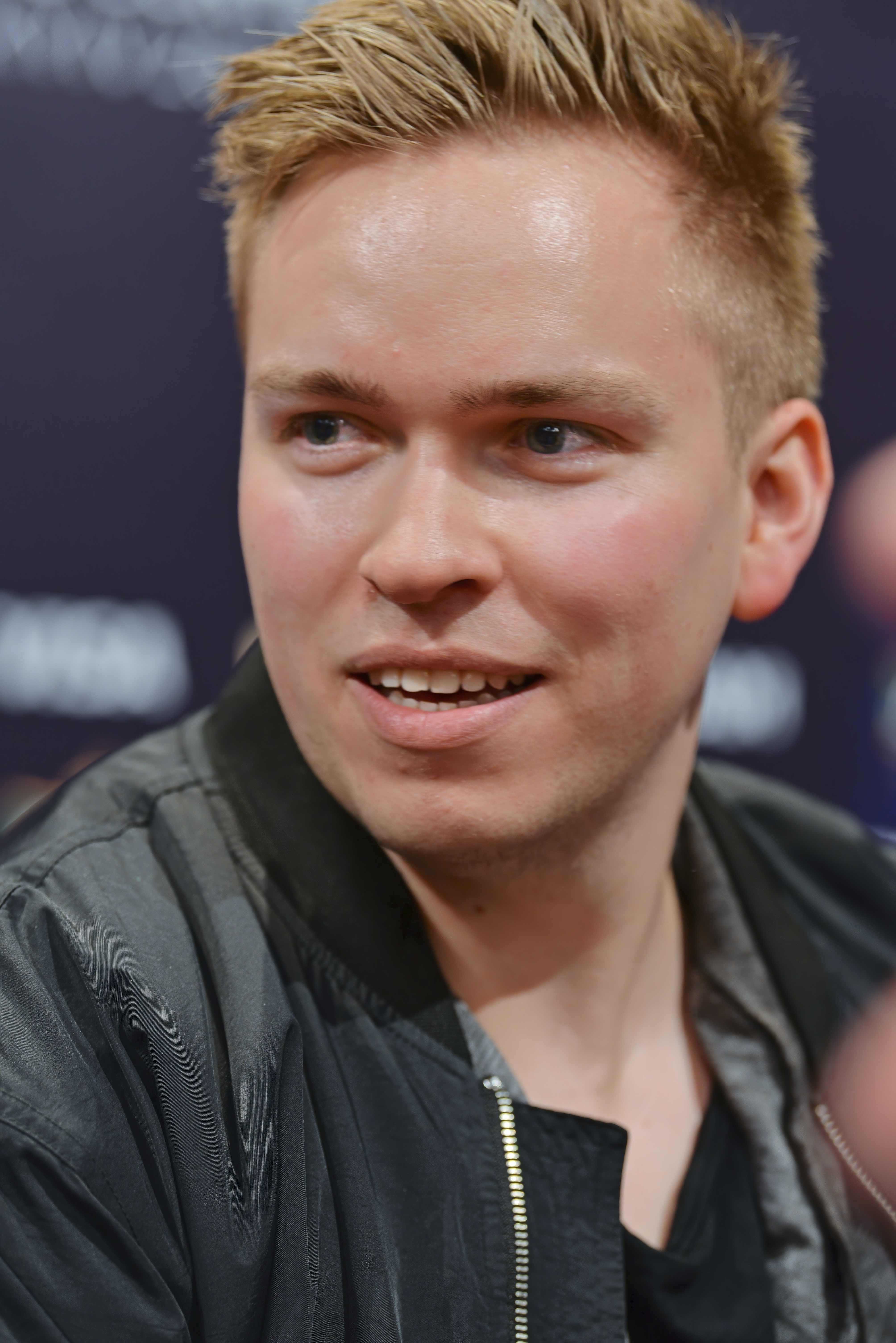 Joakim With in Kyiv for Eurovision Song Contest 2017